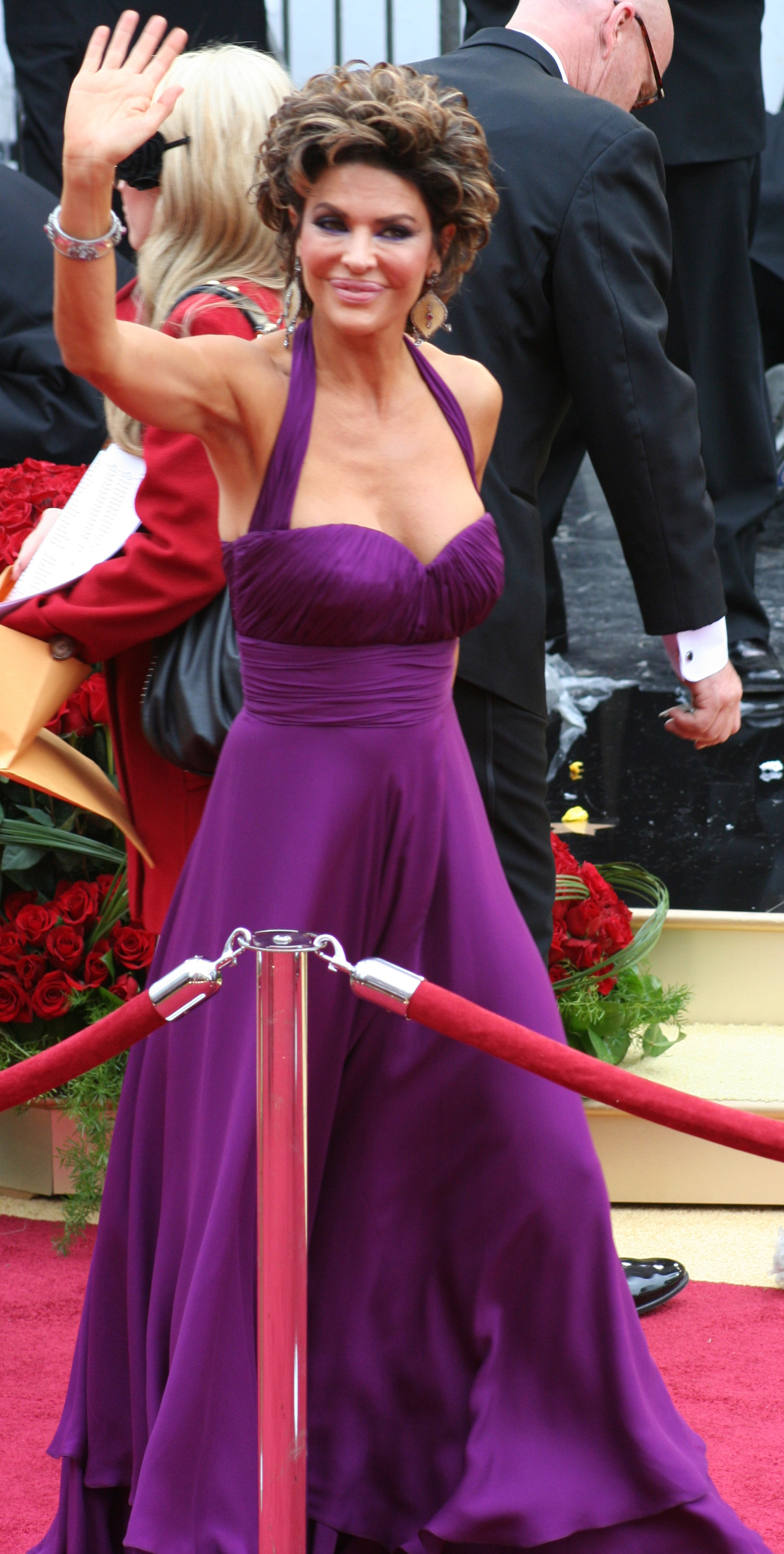 Lisa Rinna at the 81st Academy Awards